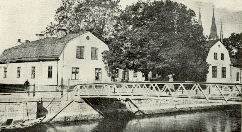 The exterior of the house of Västgöta nation, a student society at Uppsala University in Sweden. Picture taken in 1900, before changes made to the building (see Image:Västgöta nation huset 1905 NH s 99.jpg for a post-change picture from 1905, and Image:Uppsala - View of Västgöta nation.jpg for a more recent one in colour).